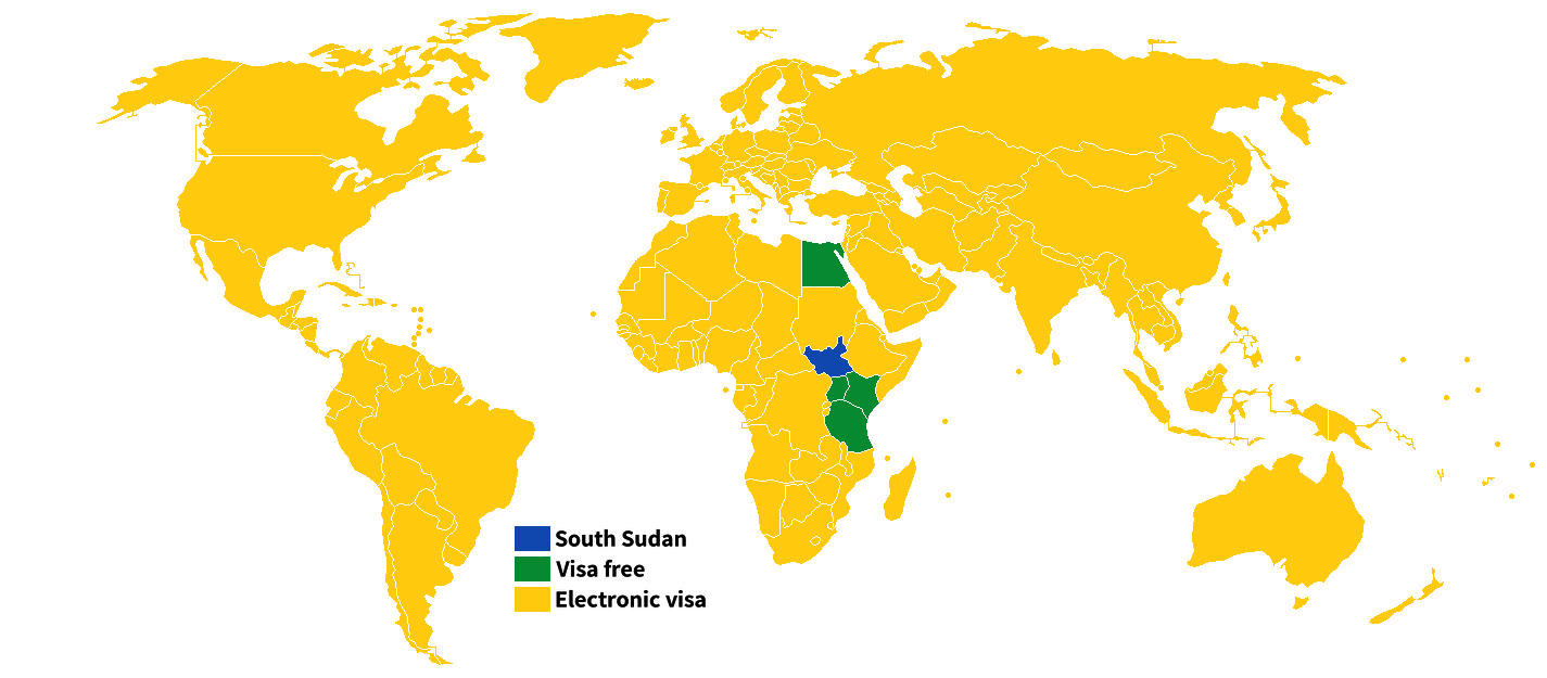 Visa policy of South Sudan South Sudan Visa on arrivalTiếng Việt: Chính sách thị thực Nam Sudan Nam Sudan Thị thực tại cửa khẩu